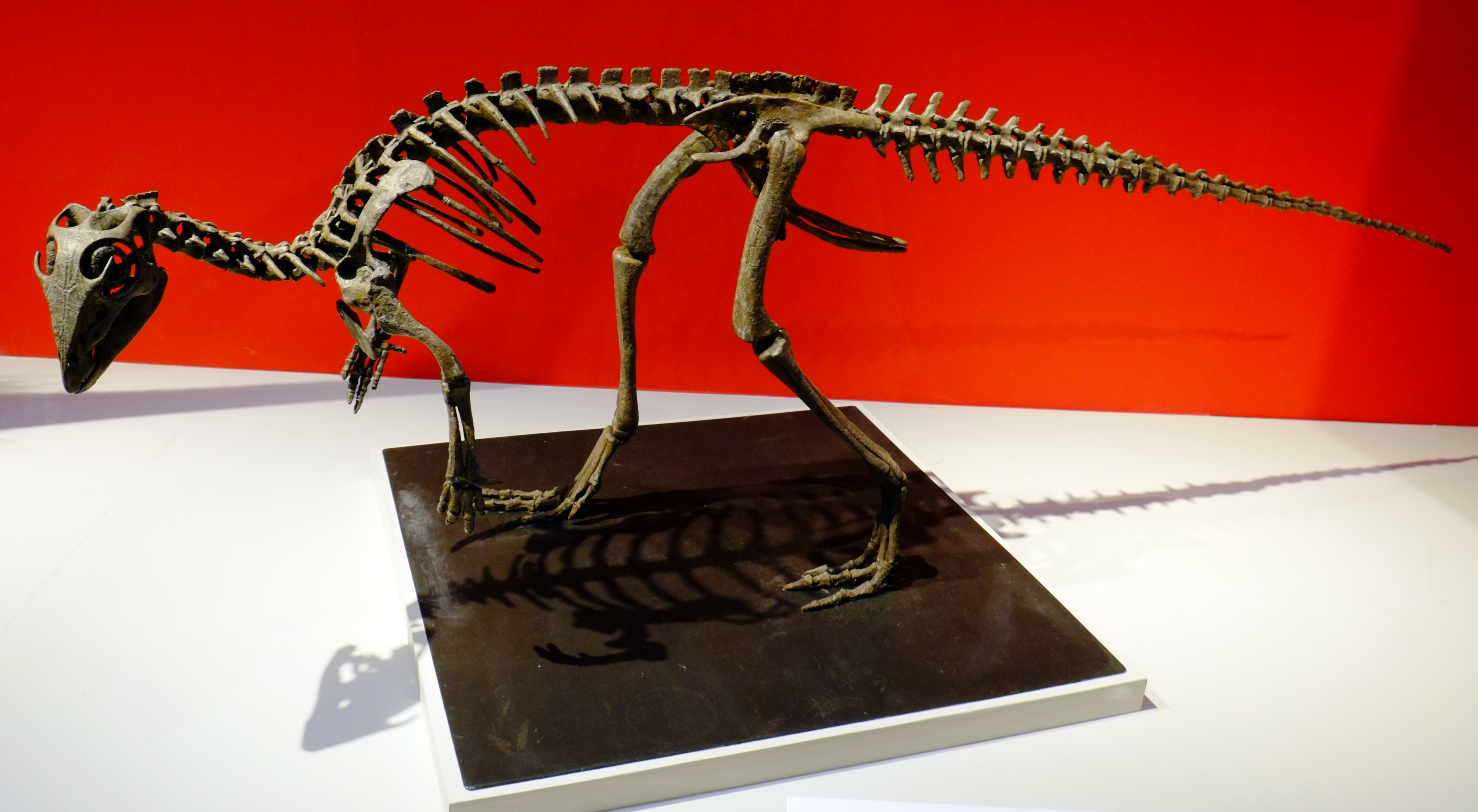 クリンダ全身骨格